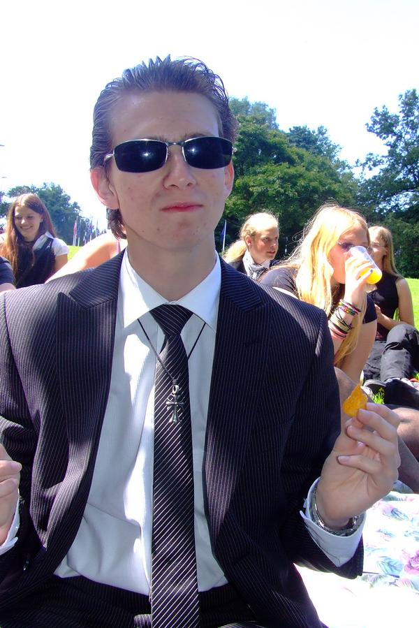 Picture about CoprGoth